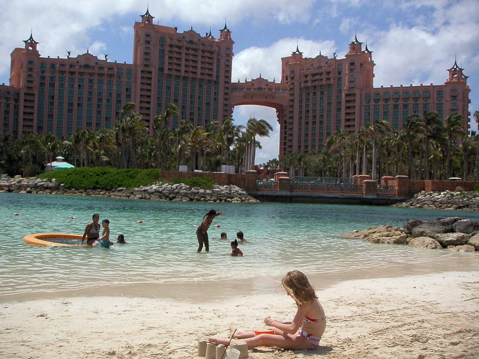 Beach in front of the Royal Towers at Atlantis, Paradise Island, Nassau, Bahamas.